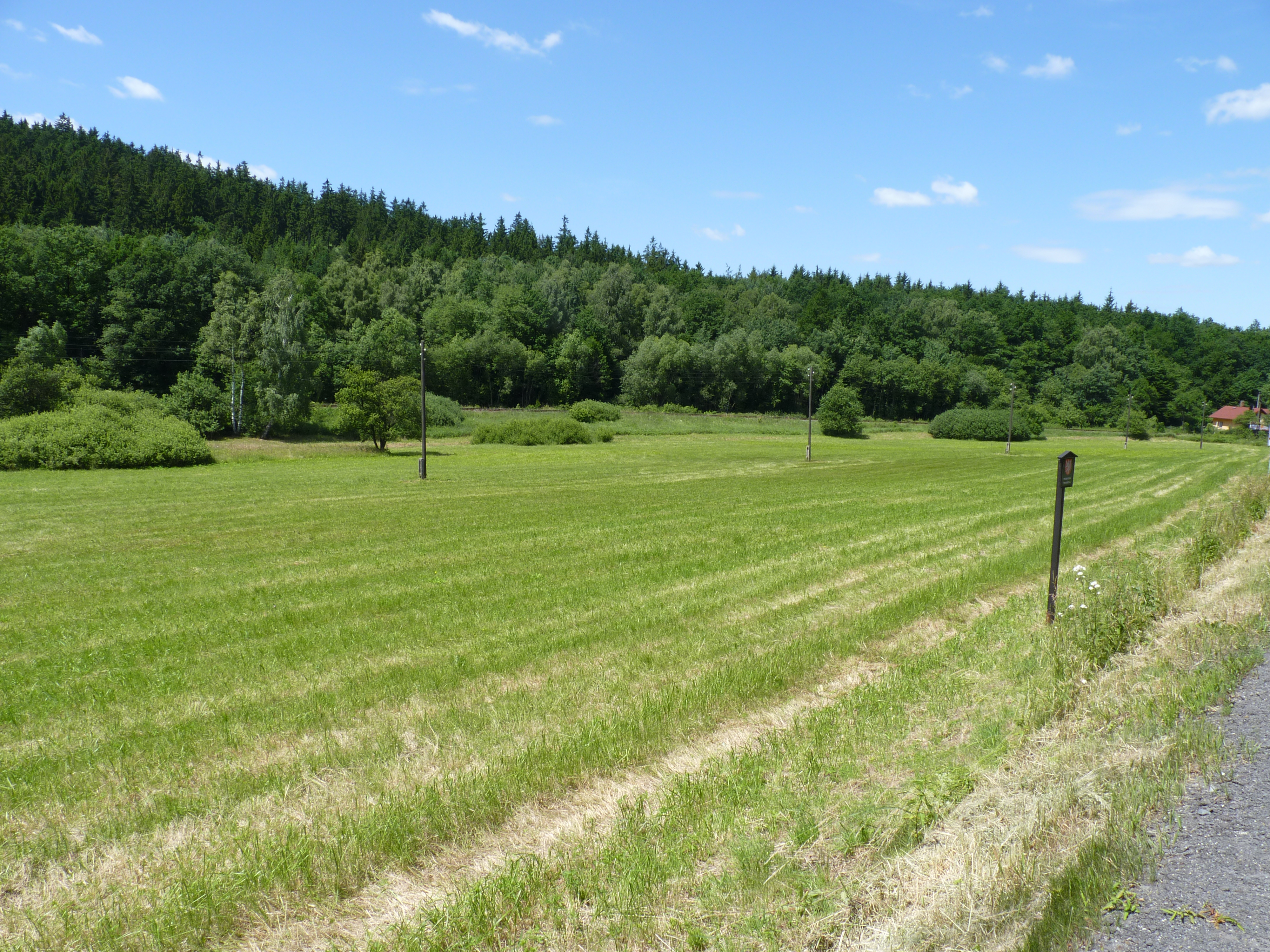 Natural monument Domorazské louky. Nový Jičín District, Moravian-Silesian Region, Czech Republic